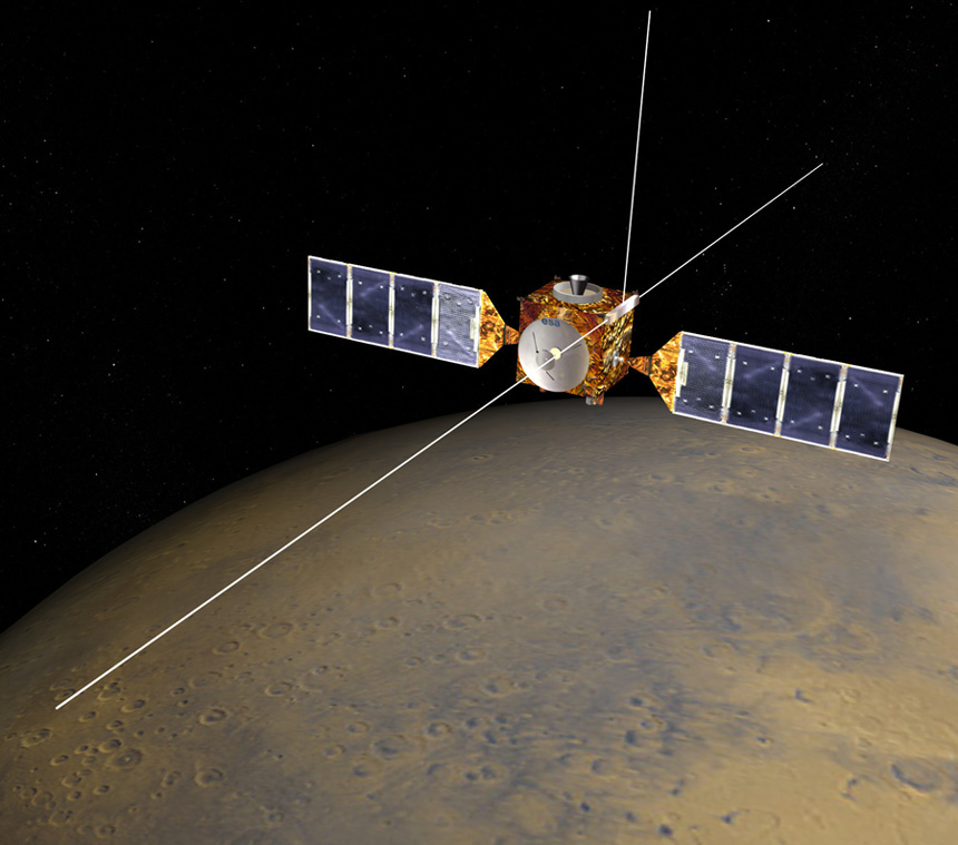 Illustration of ESA's Mars Express showing its MARSIS antenna.